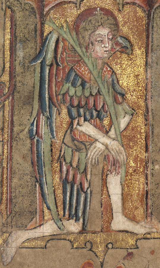 Llanbeblig Hours (f. 1r.) The Annunciation, Gabriel kneeling on one knee